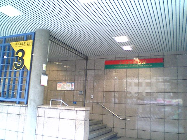 Taipei MRT Chiang Kai-Shek Memorial Hall Station.